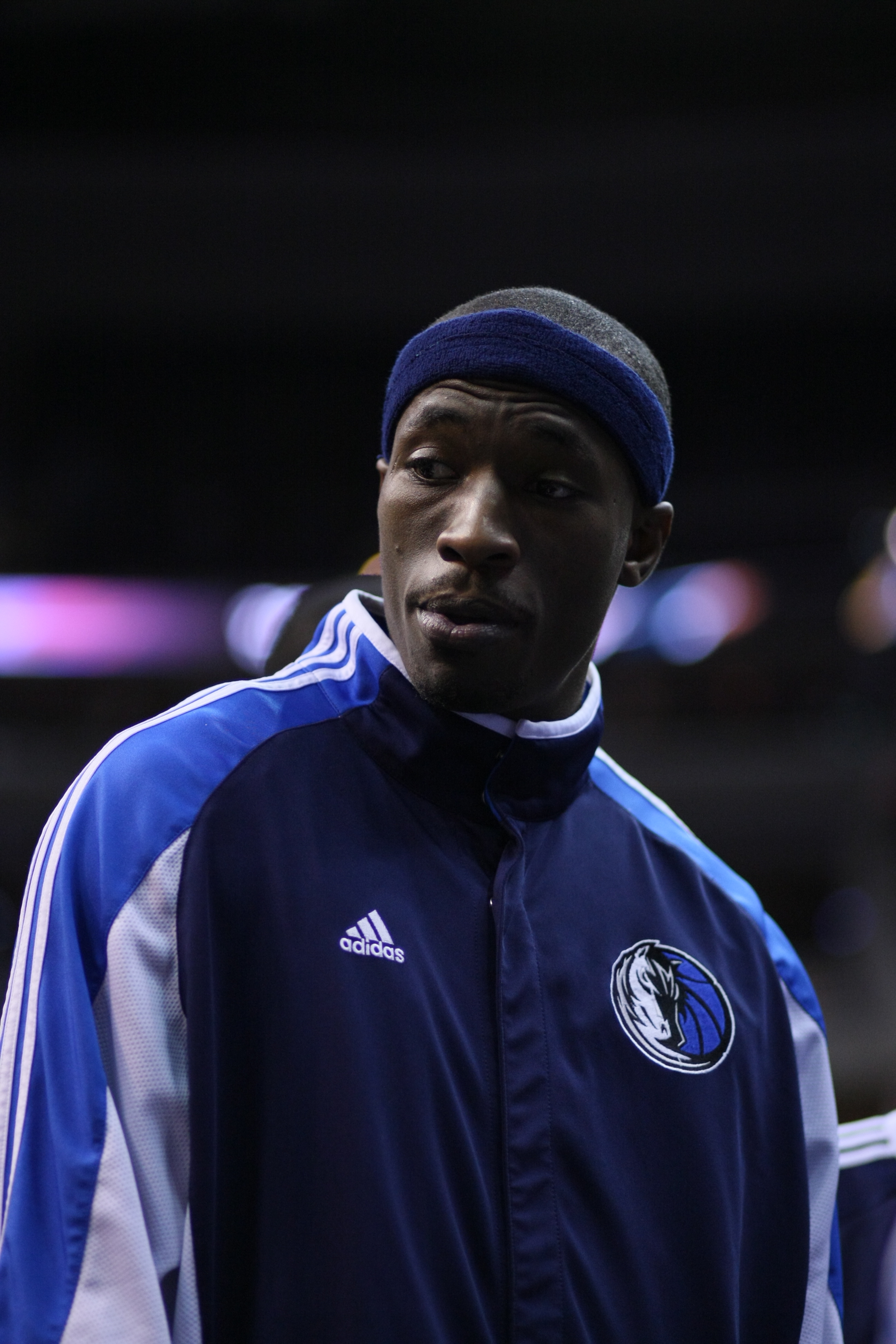 Josh Howard